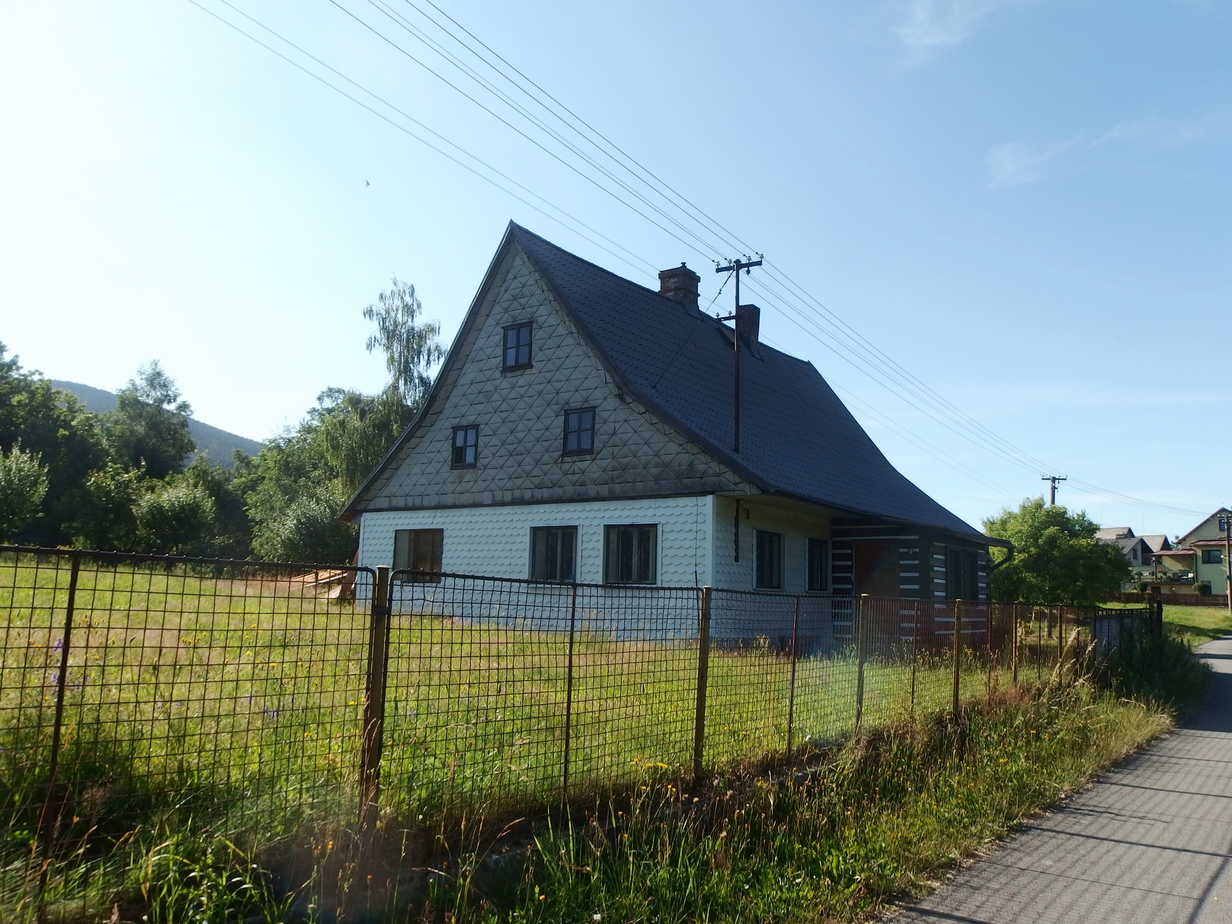 Červená Voda, Ústí nad Orlicí District, Czechia, part Mlýnice.